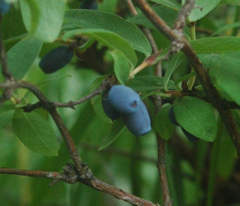 Lonicera kamtschatica, berries